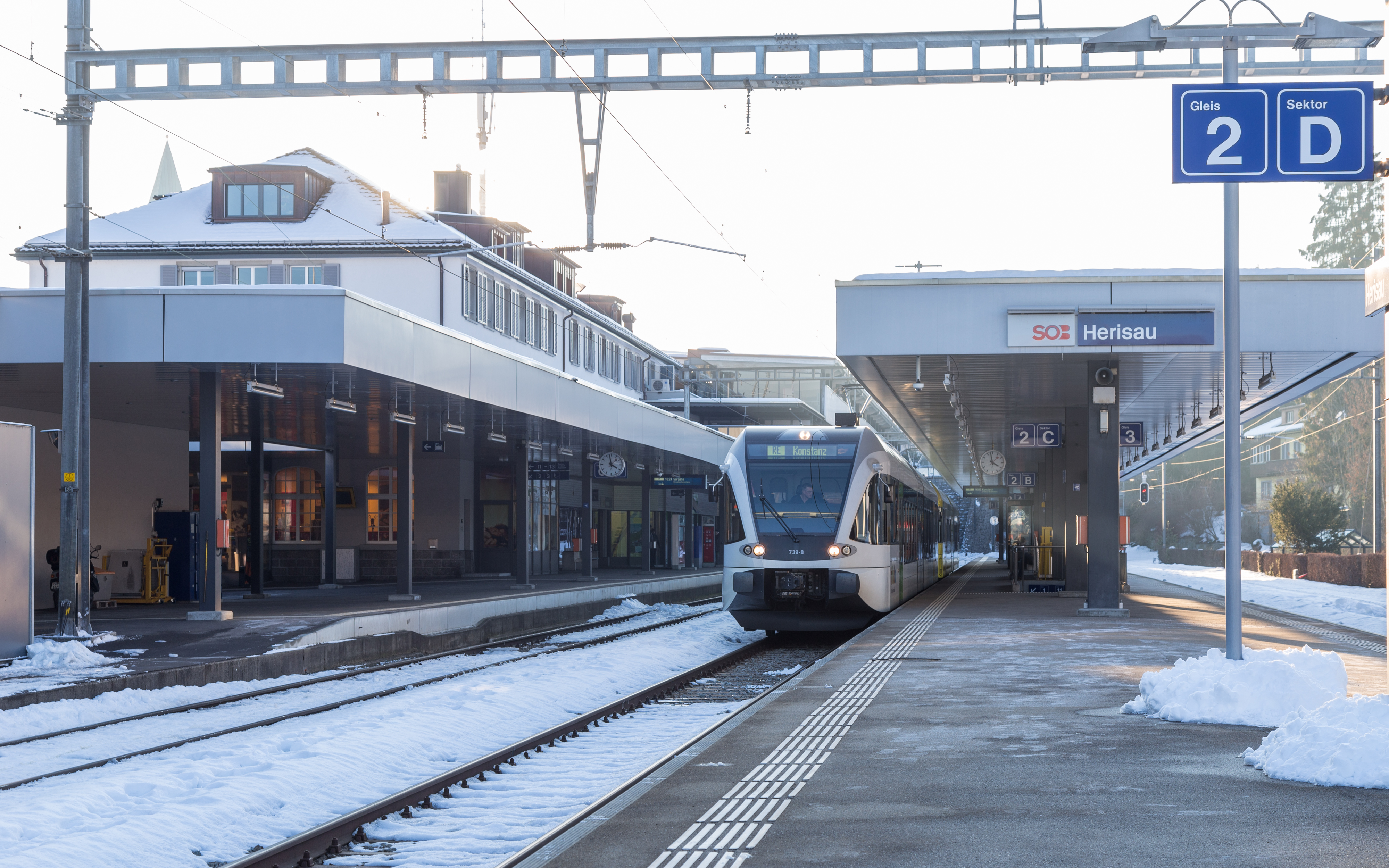 Herisau railway station, canton of Appenzell, Switzerland.